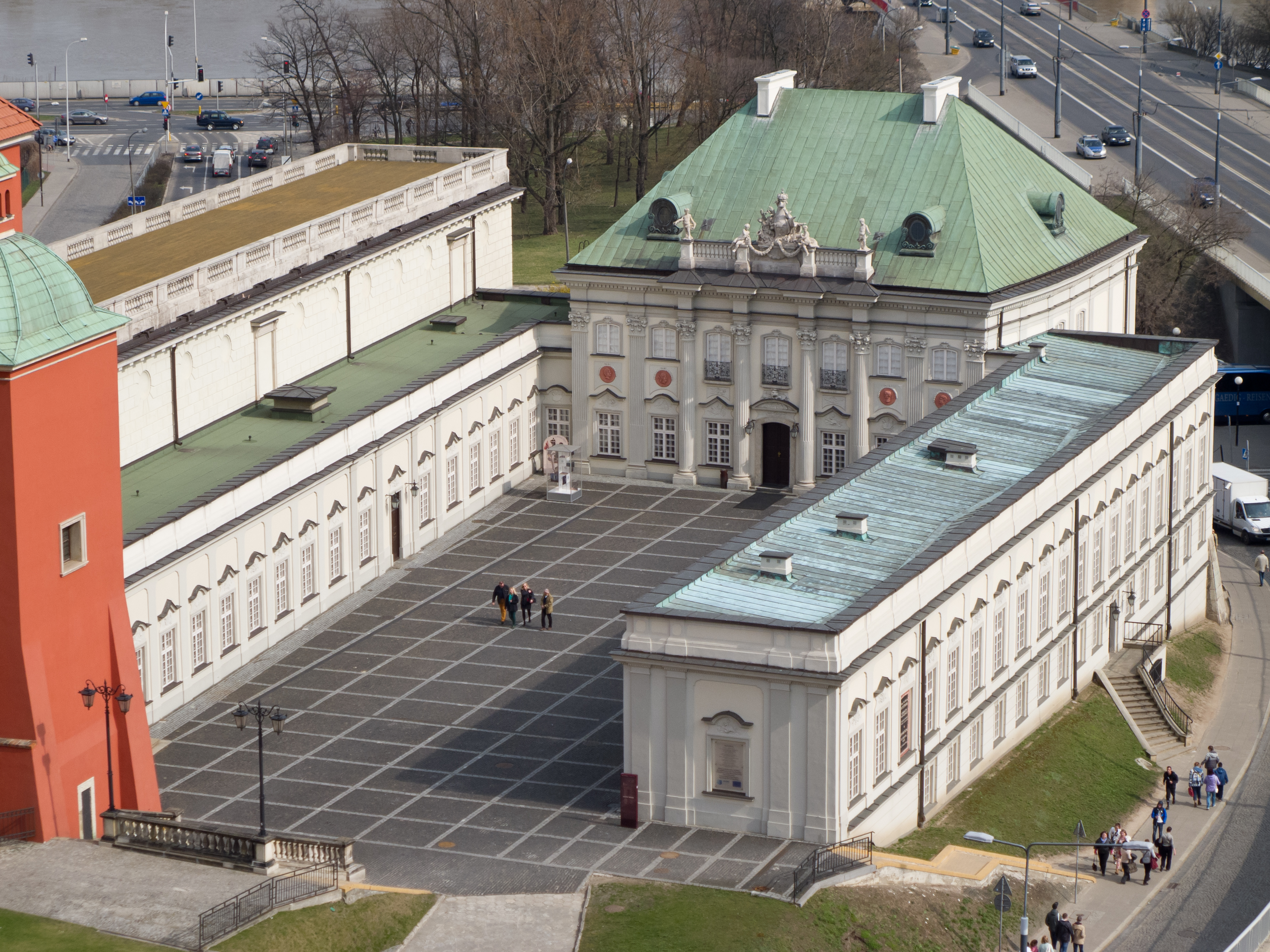 Palace under the sheet metal roof, Warsaw, Poland.